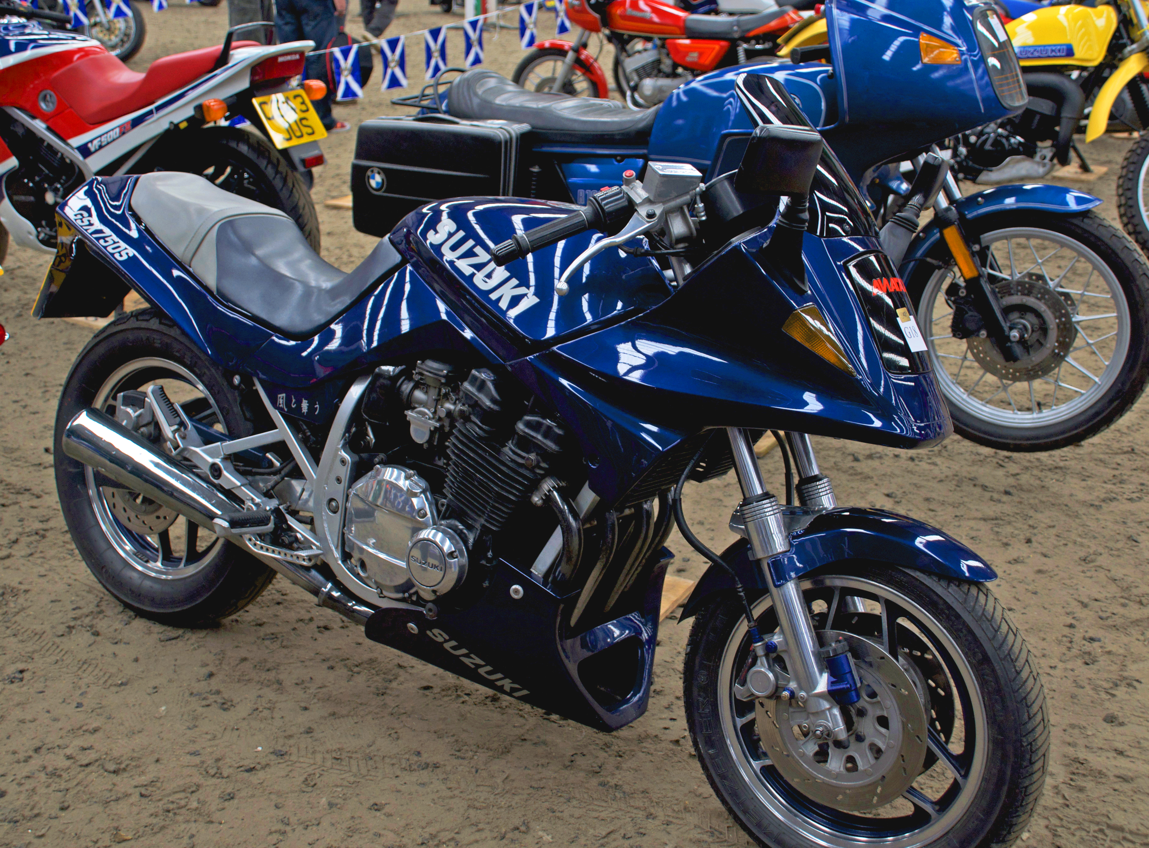 Suzuki 750 Katana with pop up headlight